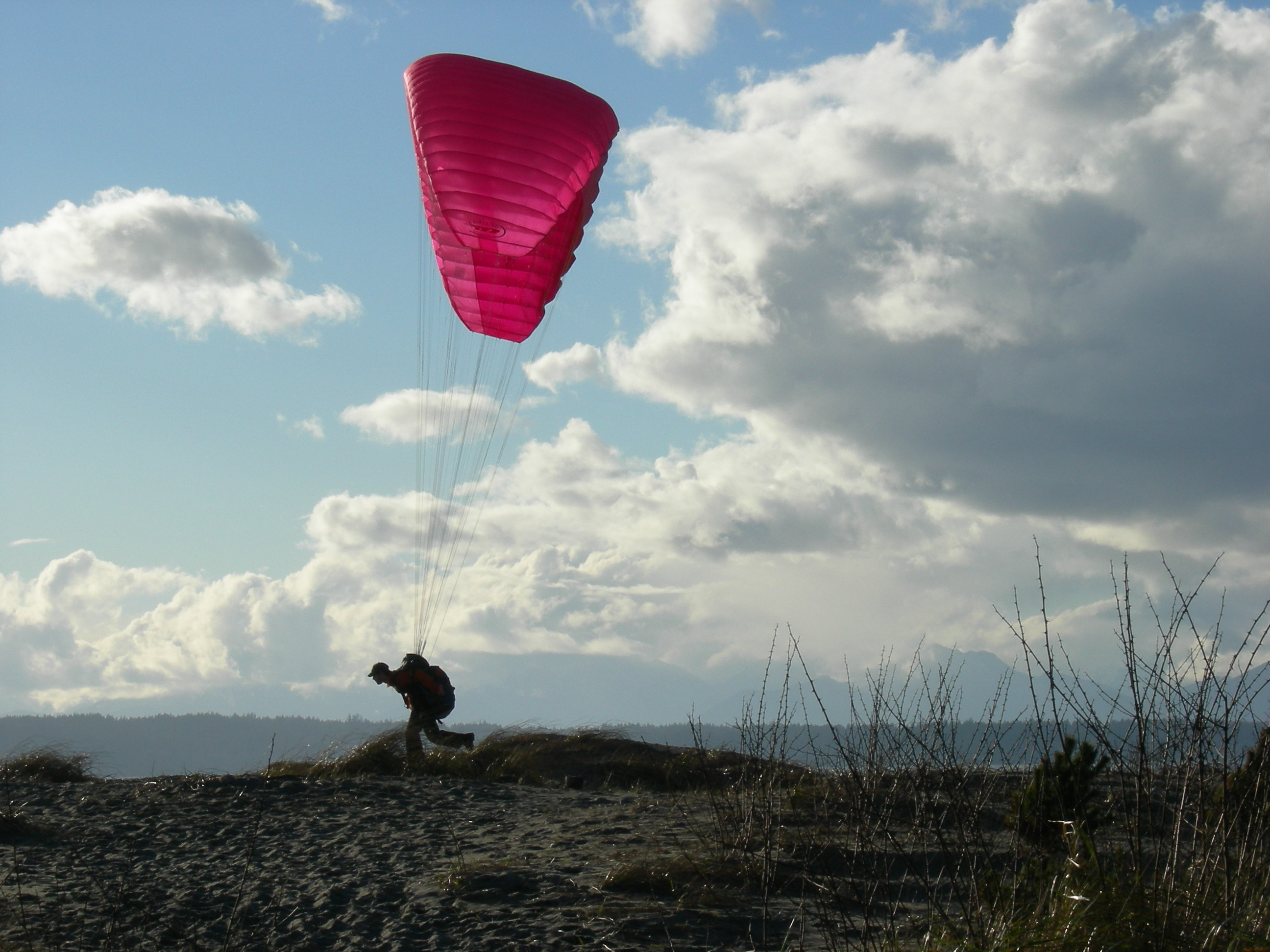 A paraglider practices his technique, utilizing the winter winds in the dunes near the shore of Golden Gardens Park, Ballard, Seattle, Washington.